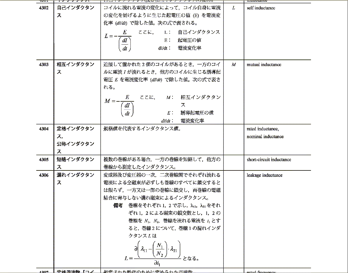 JIS C5602 is a Japanese industrial standard, which is Japanese Government publications.